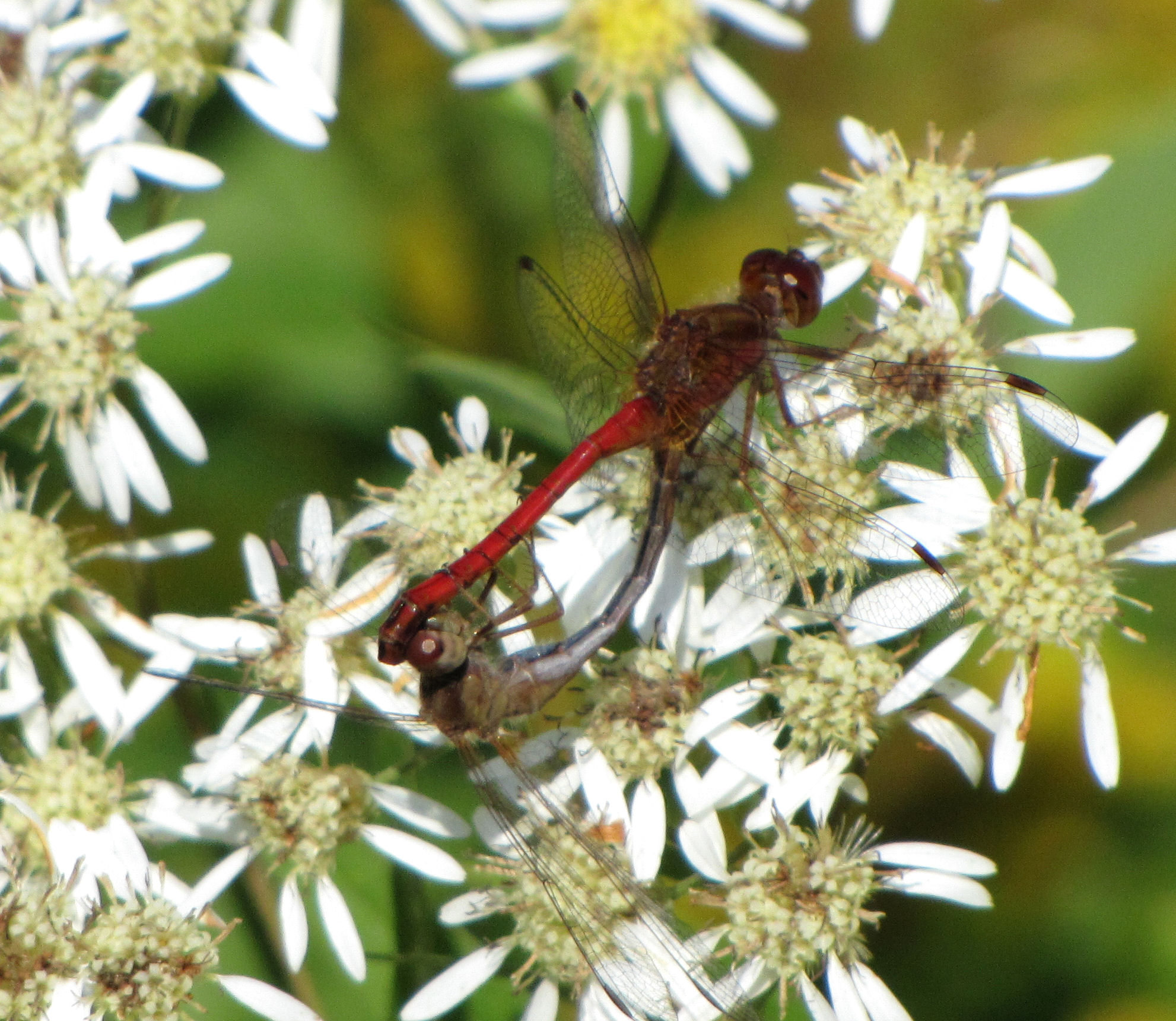 Ruby Meadowhawks (Sympetrum rubicundulum), male holding female's head while mating, Ottawa, Ontario